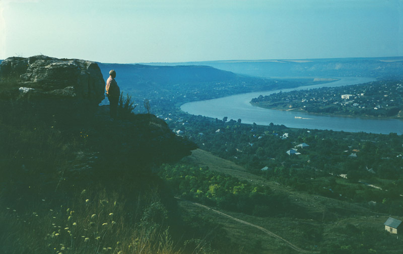 Moldovan poet Dumitru Matcovschi watching over his homeland Vadul-Rașcov.